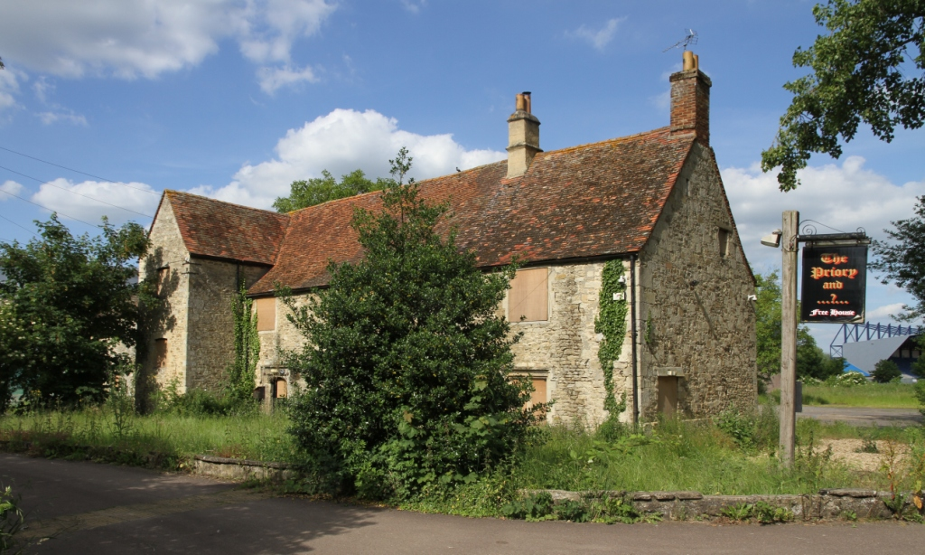 Minchery Farmhouse, Littlemore, Oxfordshire: view from the southwest